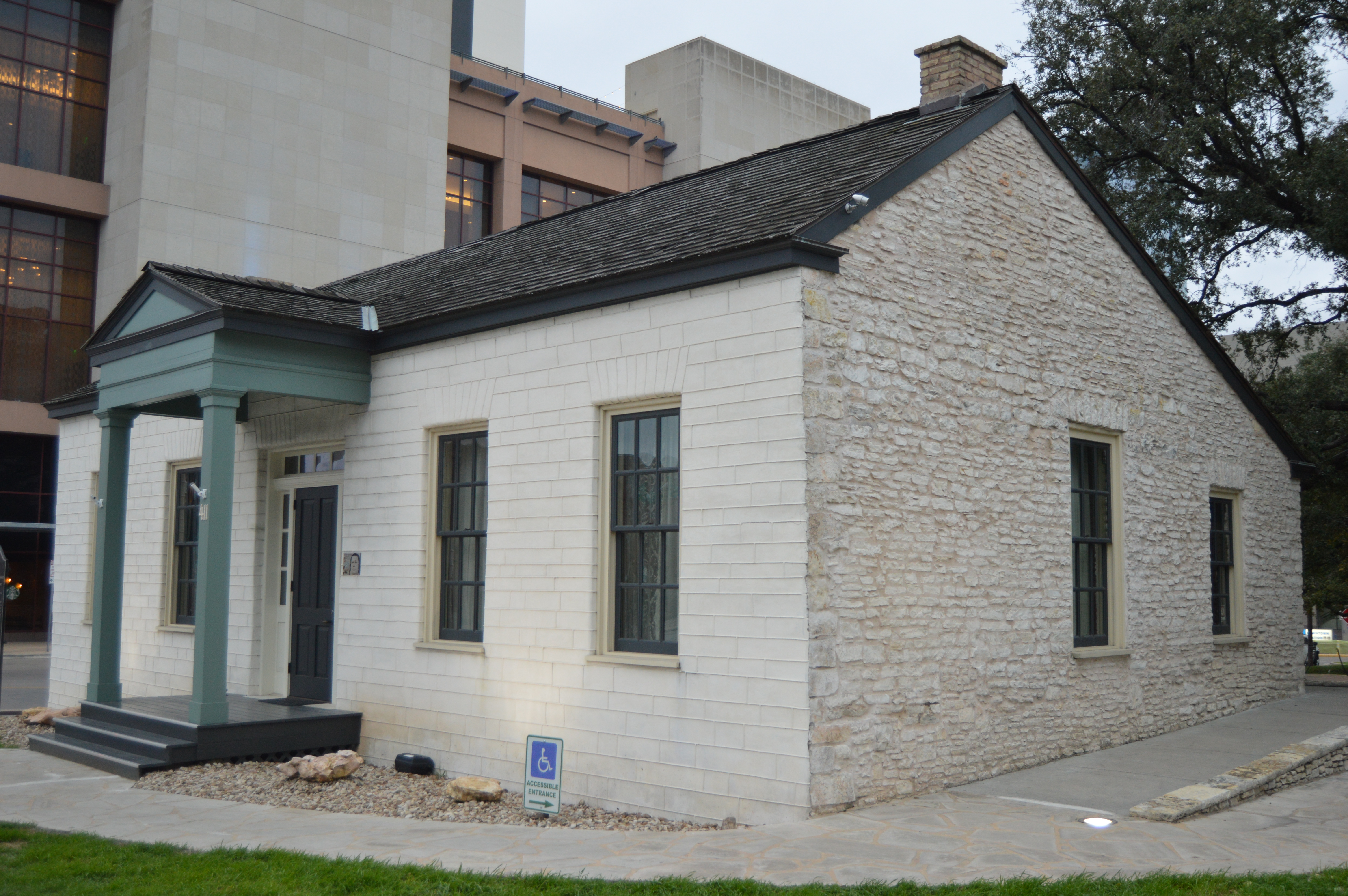 Front and western side of the home of Susanna Dickinson-Hannig, located at 411 E. Fifth Street in Austin, Texas, United States. Built in 1869, it is now a museum.